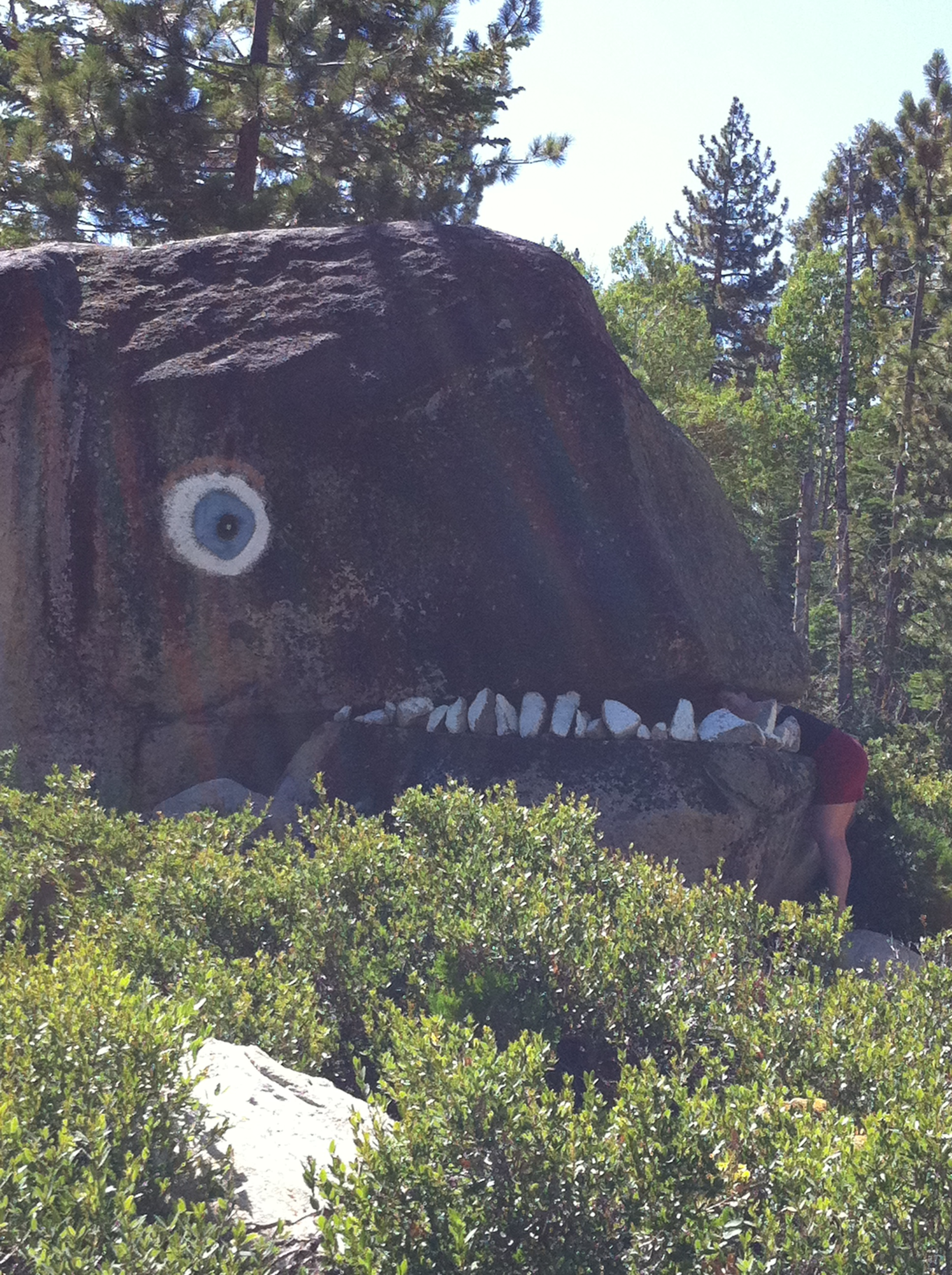 Kelley being eaten by fish rock. Roadside art, Ebbetts Pass Scenic Byway.